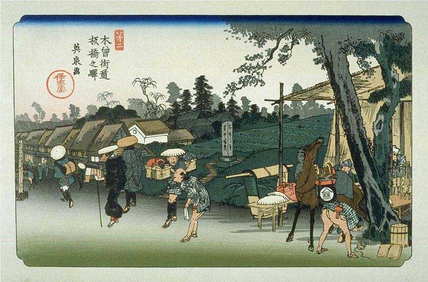 Itabashi on the Kisokaido ukiyo-e prints by Keisai Eisen